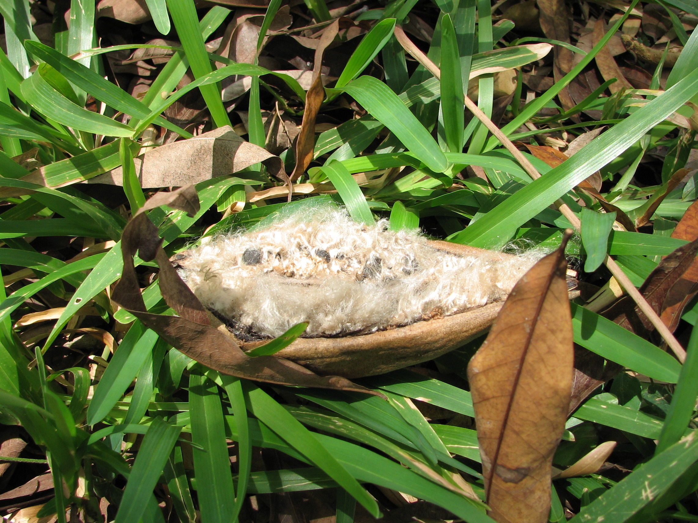 Kapok fruit (Ceiba pentandra), Zanzibar, Tanzania